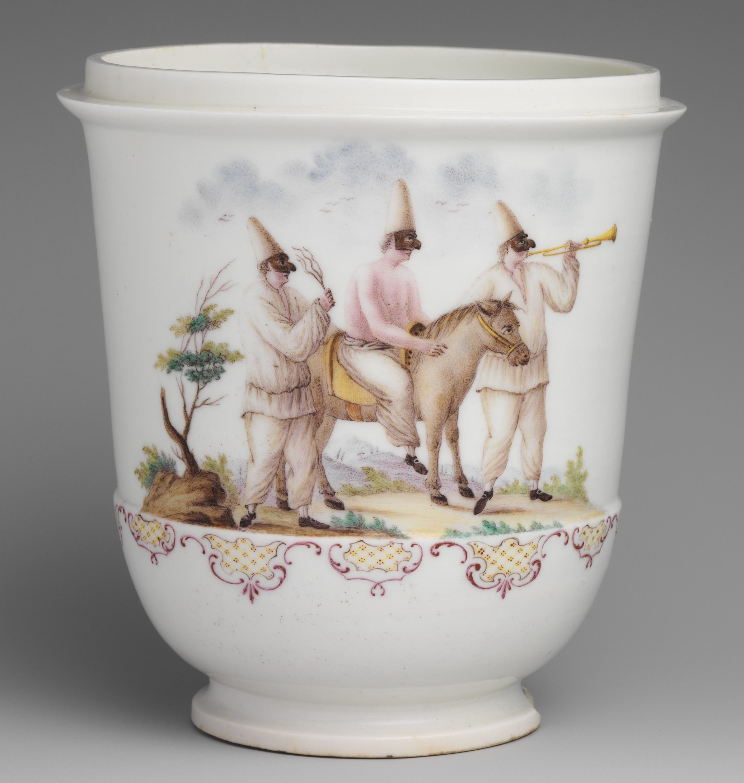 Italian, Naples; Jar; Ceramics-Porcelain